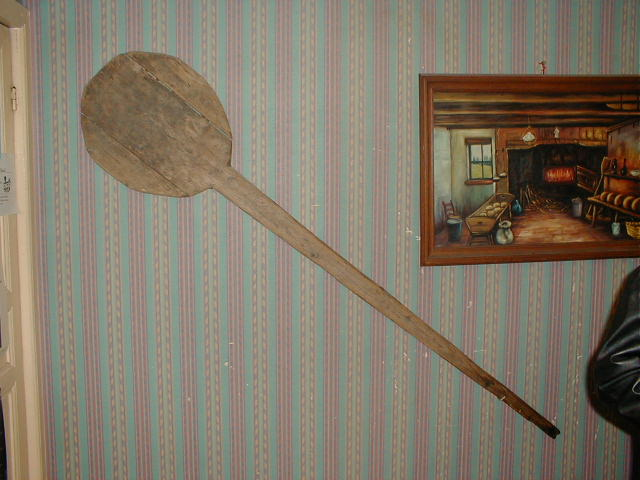 Walon: viye eforneuse (Walonreye)